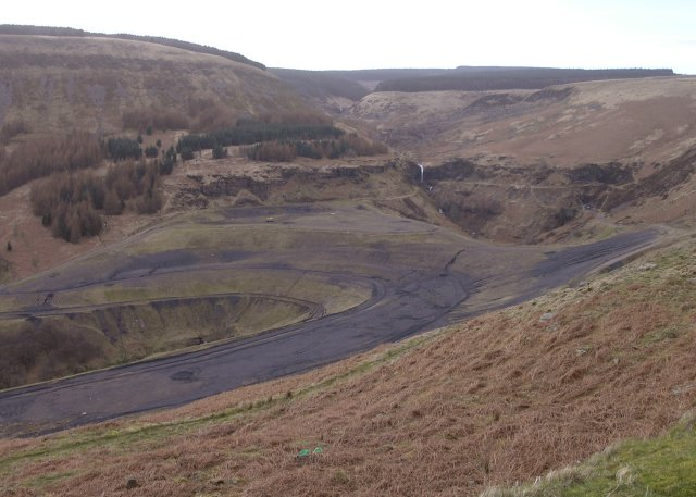 Disused Mine Workings Disused mine workings in the upper Rhondda Valley. An imressive waterfall can be seen in the distance.